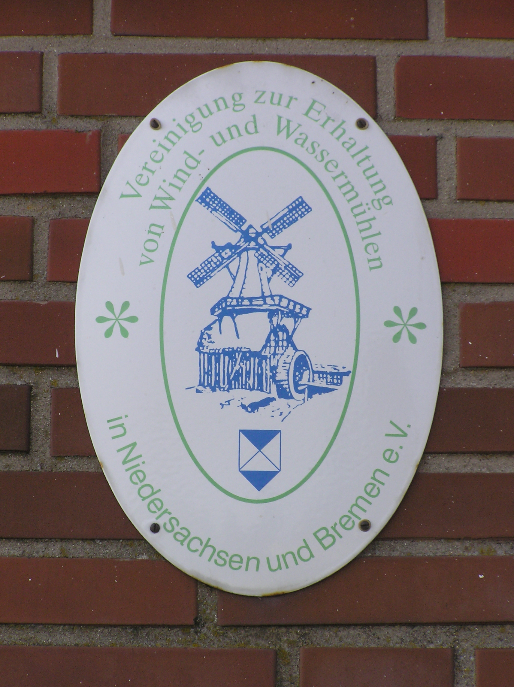 Millsign,NS,Germany